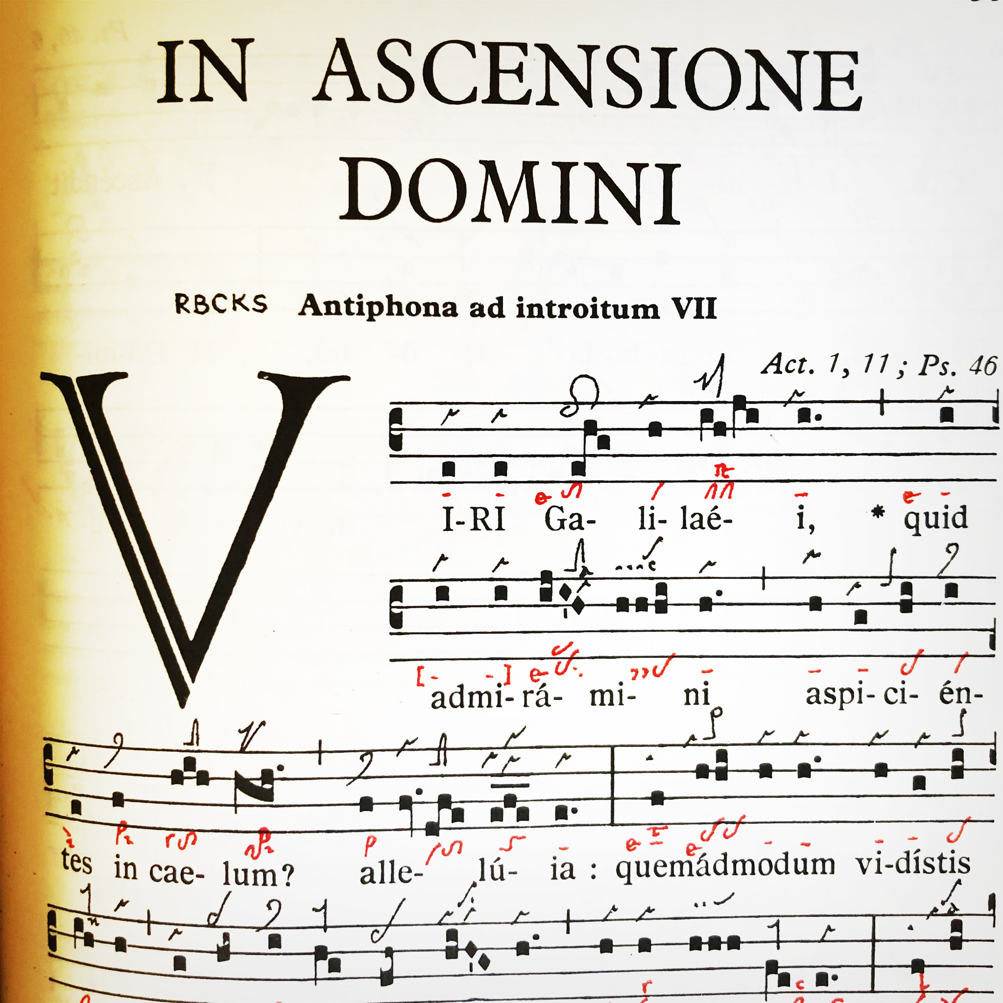 From Graduale Triplex, incipito of the celebration